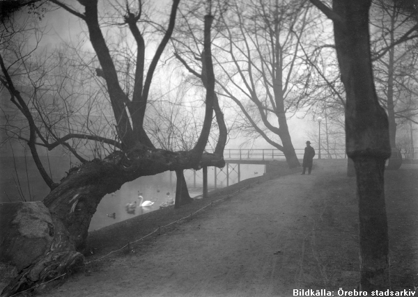 The park "Slottsparken", Örebro, Sweden